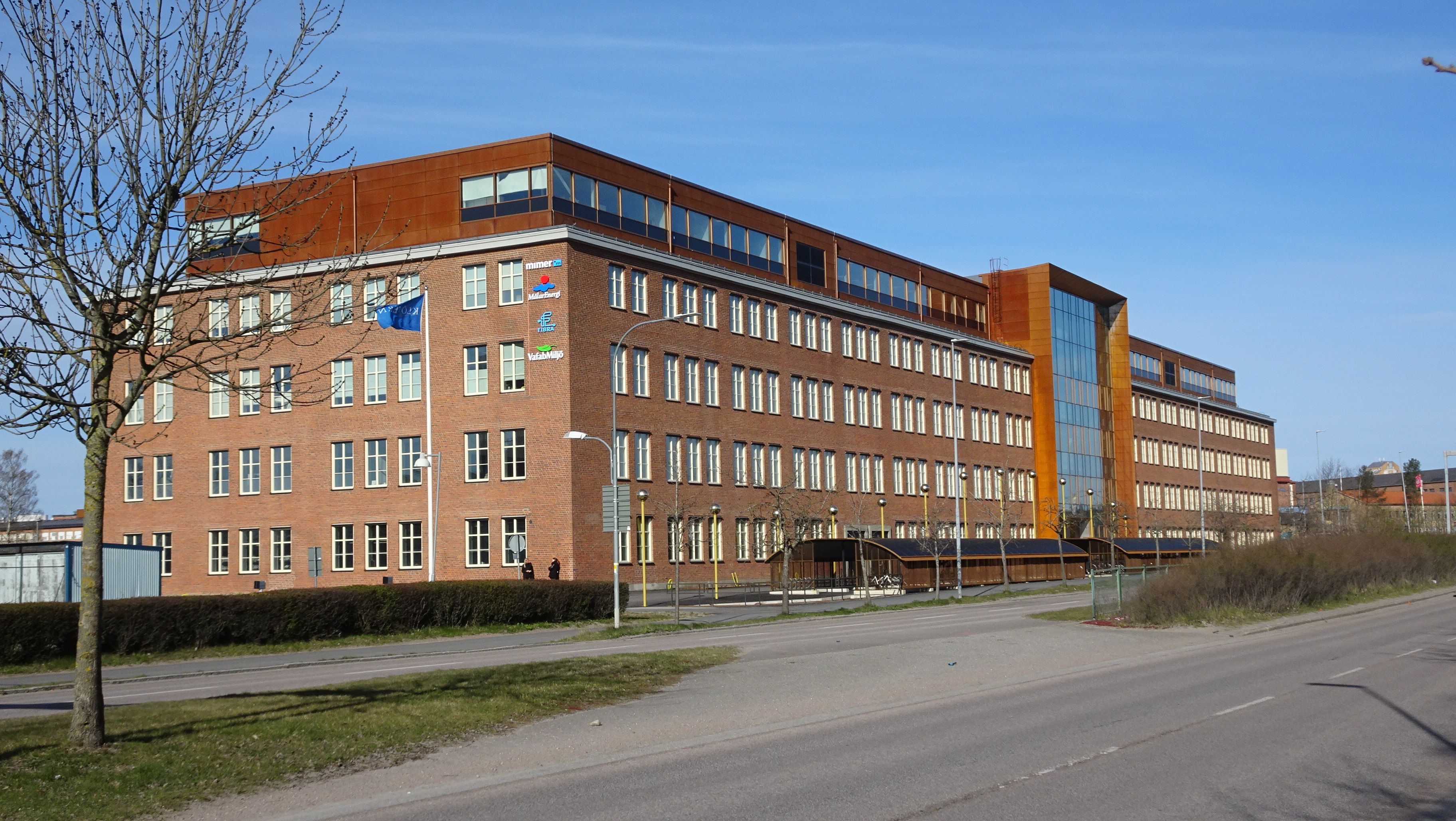 The property Navet in Västerås was originally built in 1954 by the electrotrechnical company ASEA (from 1988 ABB). It was rebuilt and ready 2020. The front in the image is facing Björnövägen. The adress is Gasverksgatan 7 in Västerås.